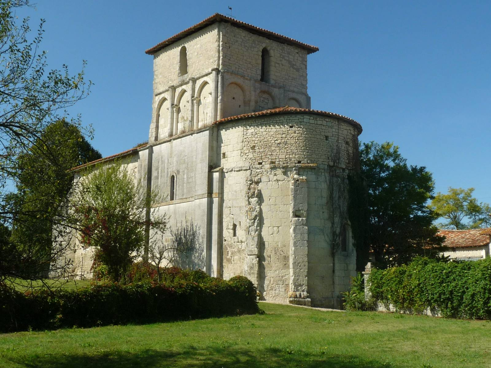 church of St-Laurent-des-Combes, Charente, SW France